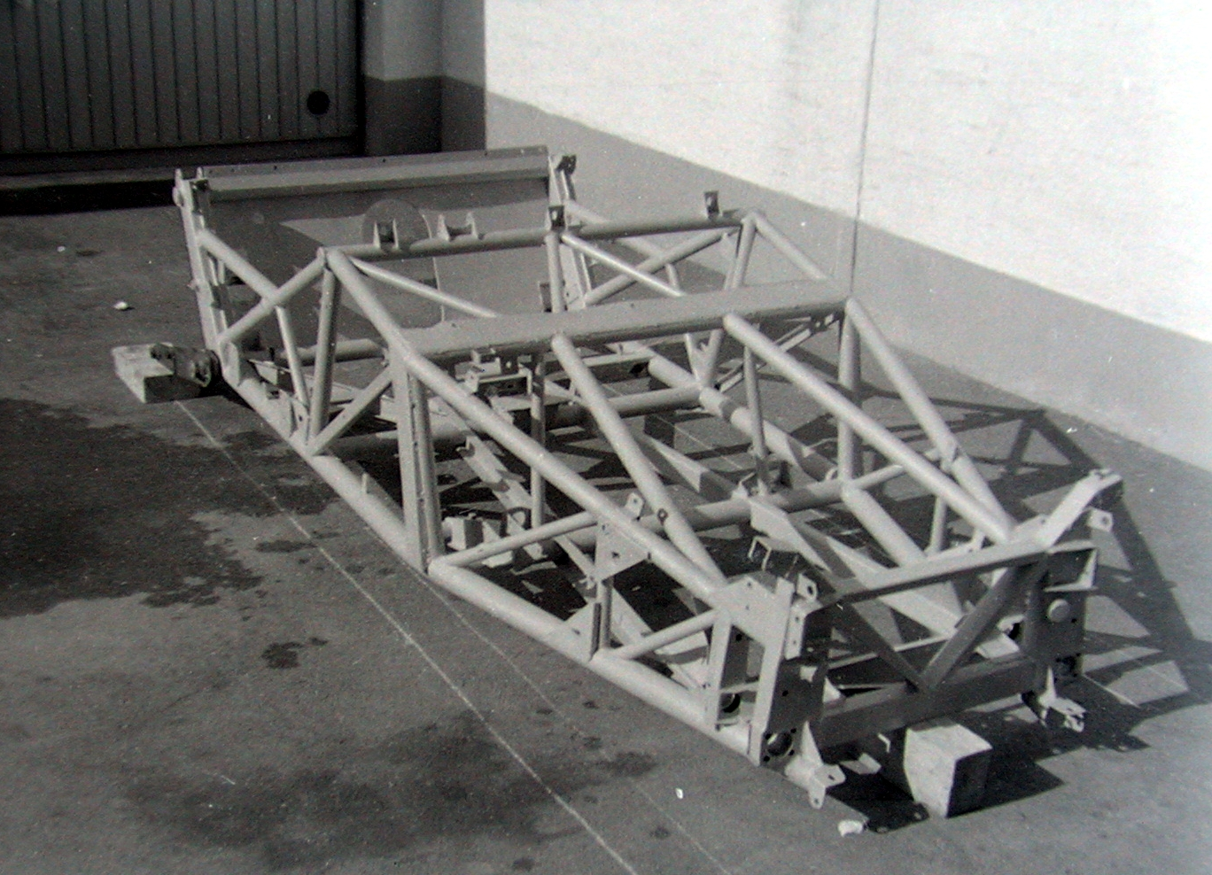 C-Type Frame XKC 045